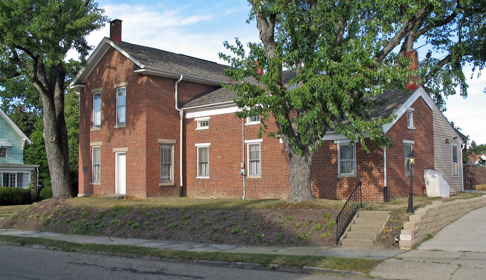 Registered Historic Places in Stark County, Ohio. Haines House, 186 W Market St., Alliance, Ohio, USA. Photographed 2008-08-25 from the northwest corner of Market St. and Lincoln Ave.